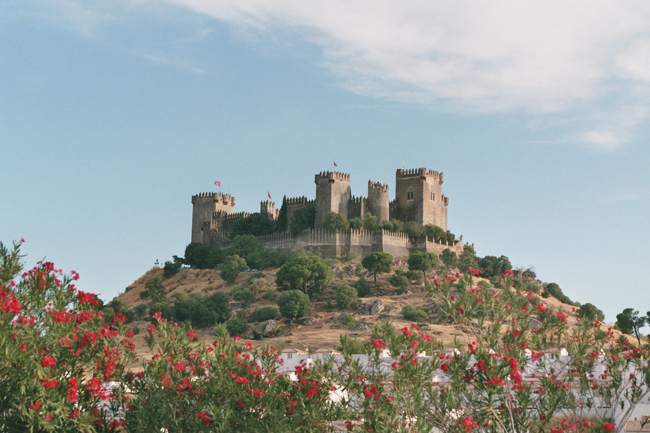 The castle of Castillo de Almodóvar del Río, 2009